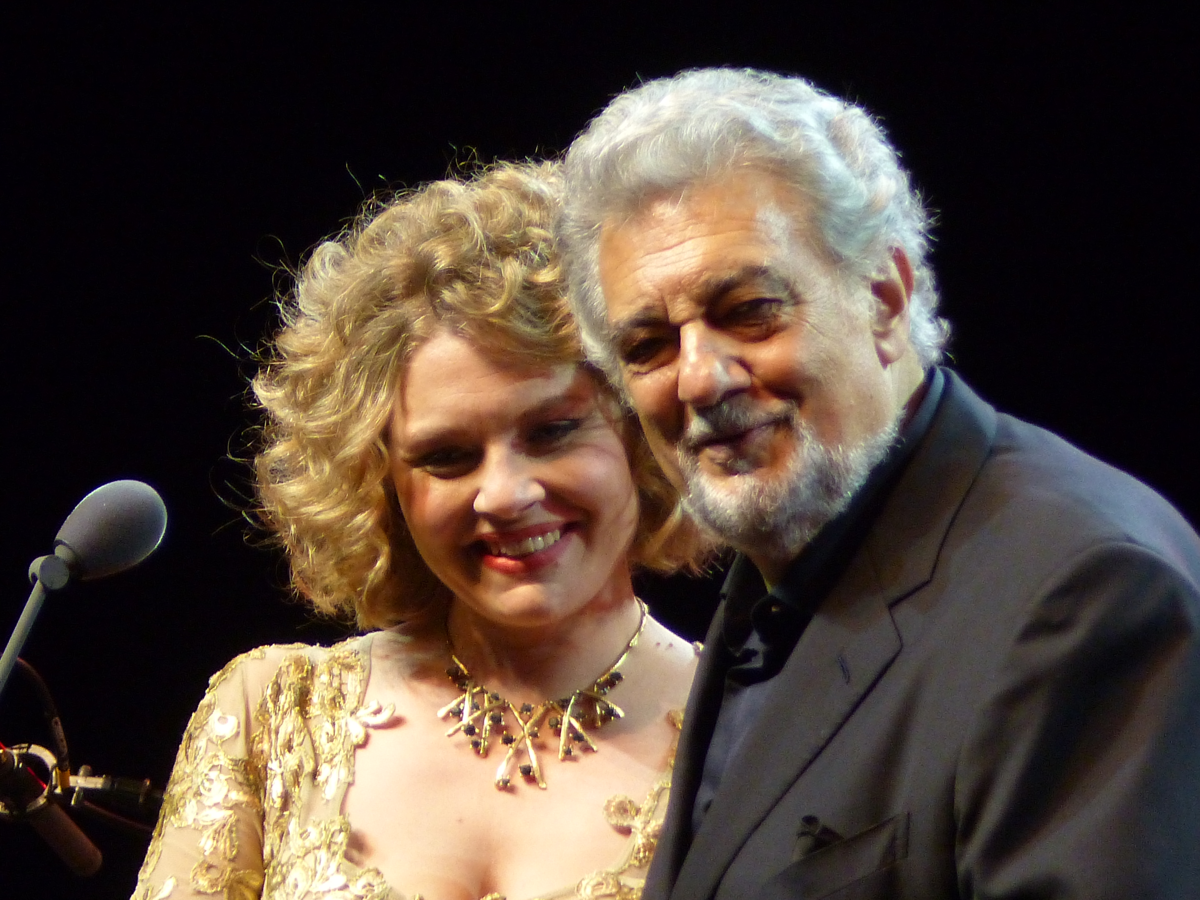 Plácido Domingo, Pasztircsák Polina. Taken on the 10th of August, 2016. Papp László Budapest Aréna, Budapest. Venue in hu.